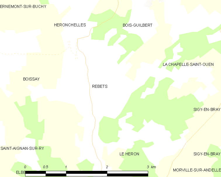 Map of French municipality Rebets